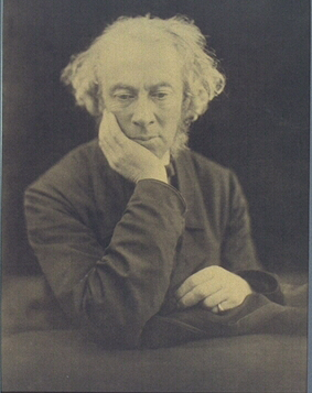 Aubrey de Vere (1868) / print by A.L. Coburn, ca. 1915, from copy negative of original print platinum print, mechanically varnished 27.0 x 21.1 cm.